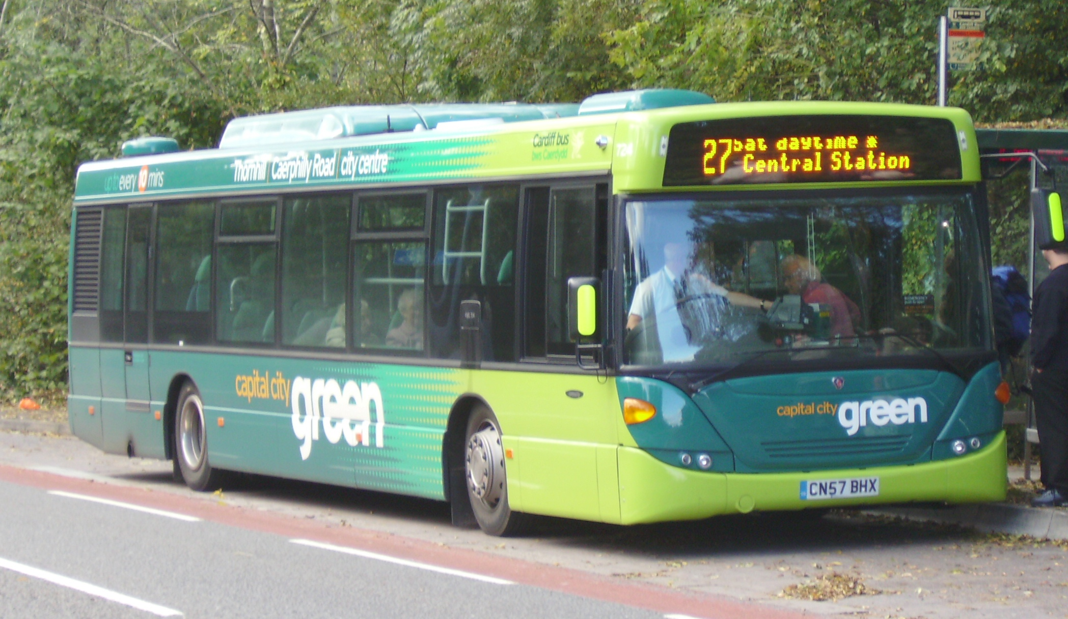 Cardiff Bus' 724 (CN57 BHX), a Scania CN270UB 4x2 EB OmniCity in service in Cardiff, Wales. Year built 2007.